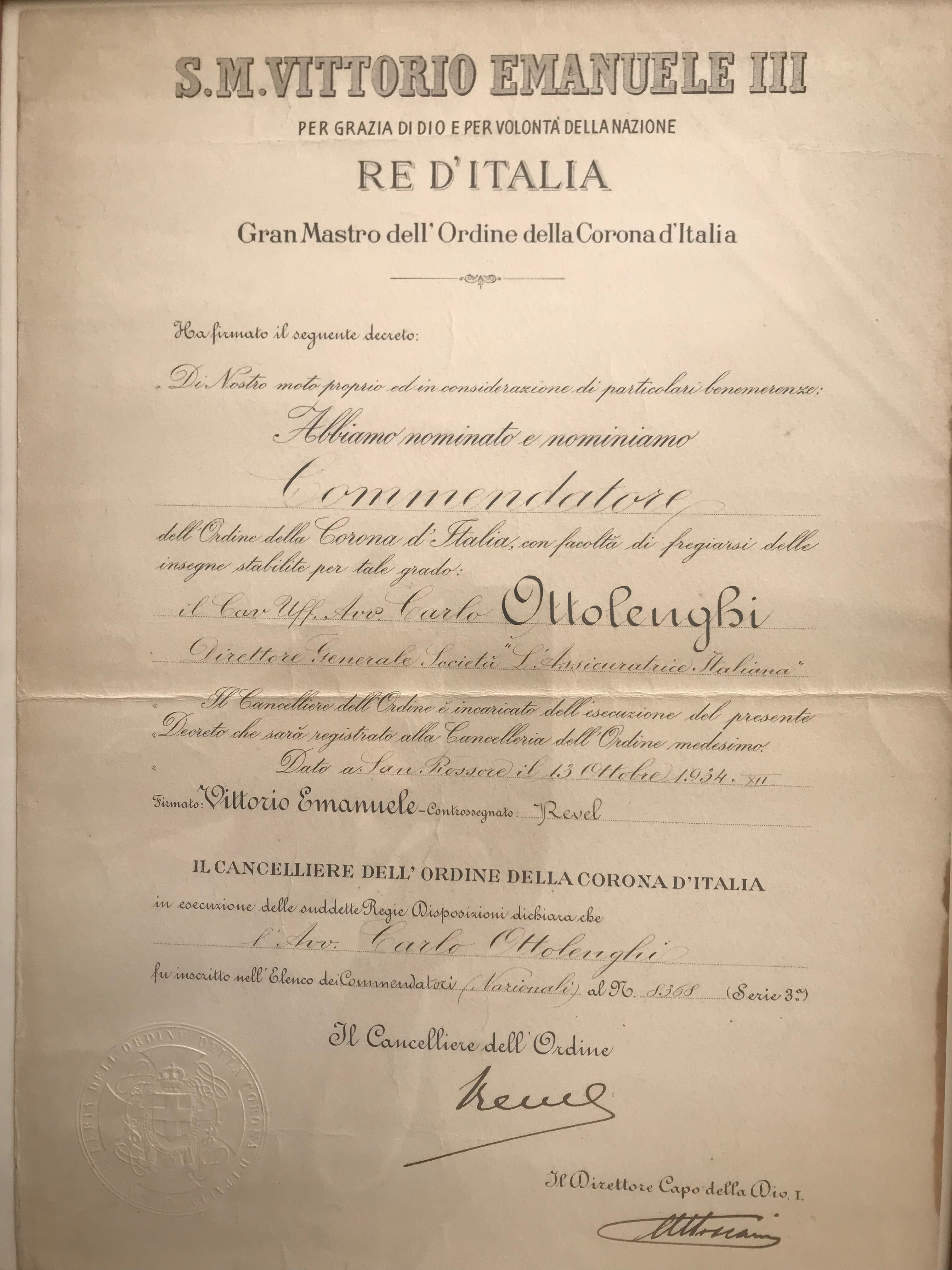 Certificate of the title of Commendatore given to Avv. Carlo Ottolenghi on October 13, 1934